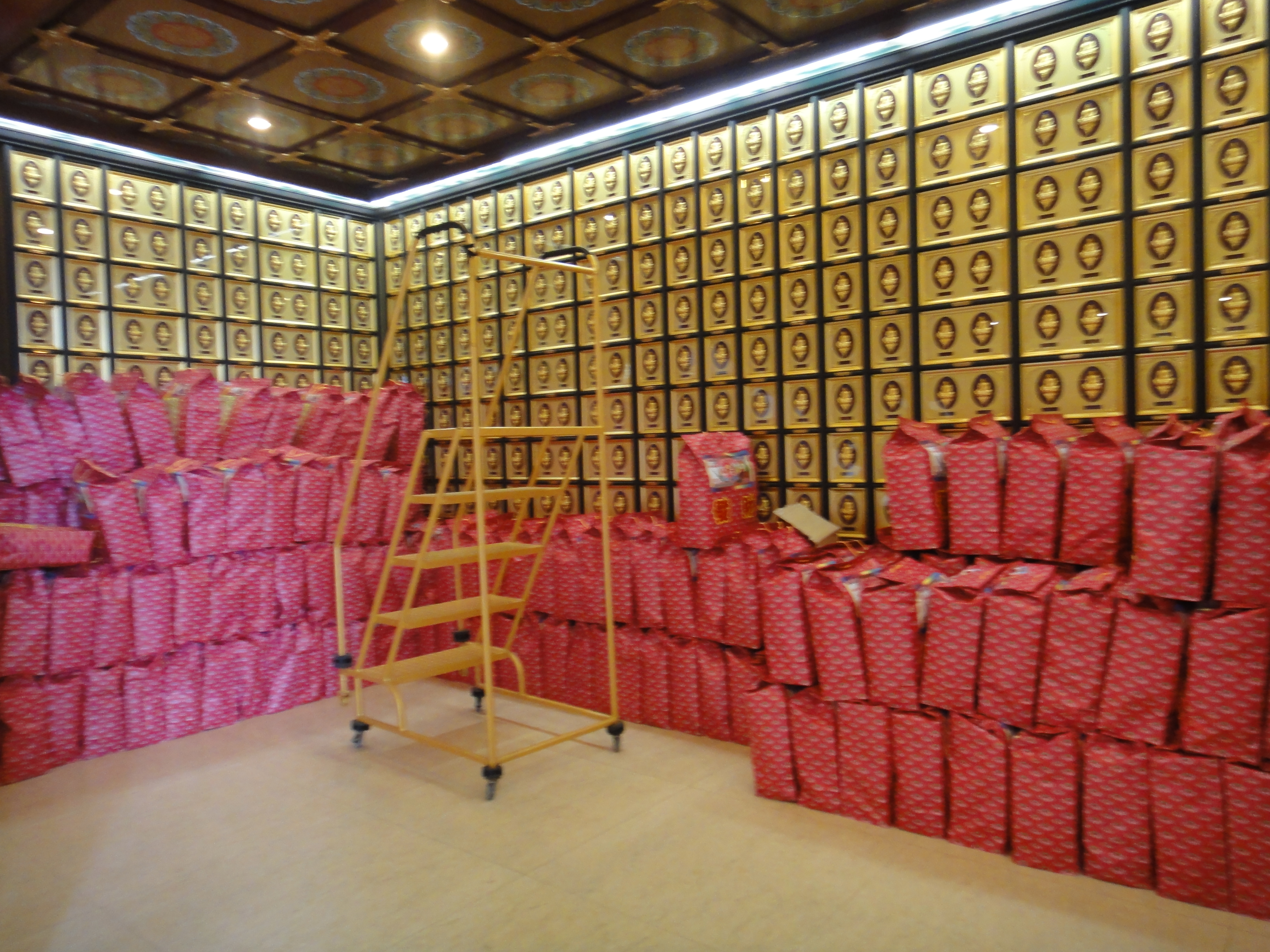 Buddha Boxes